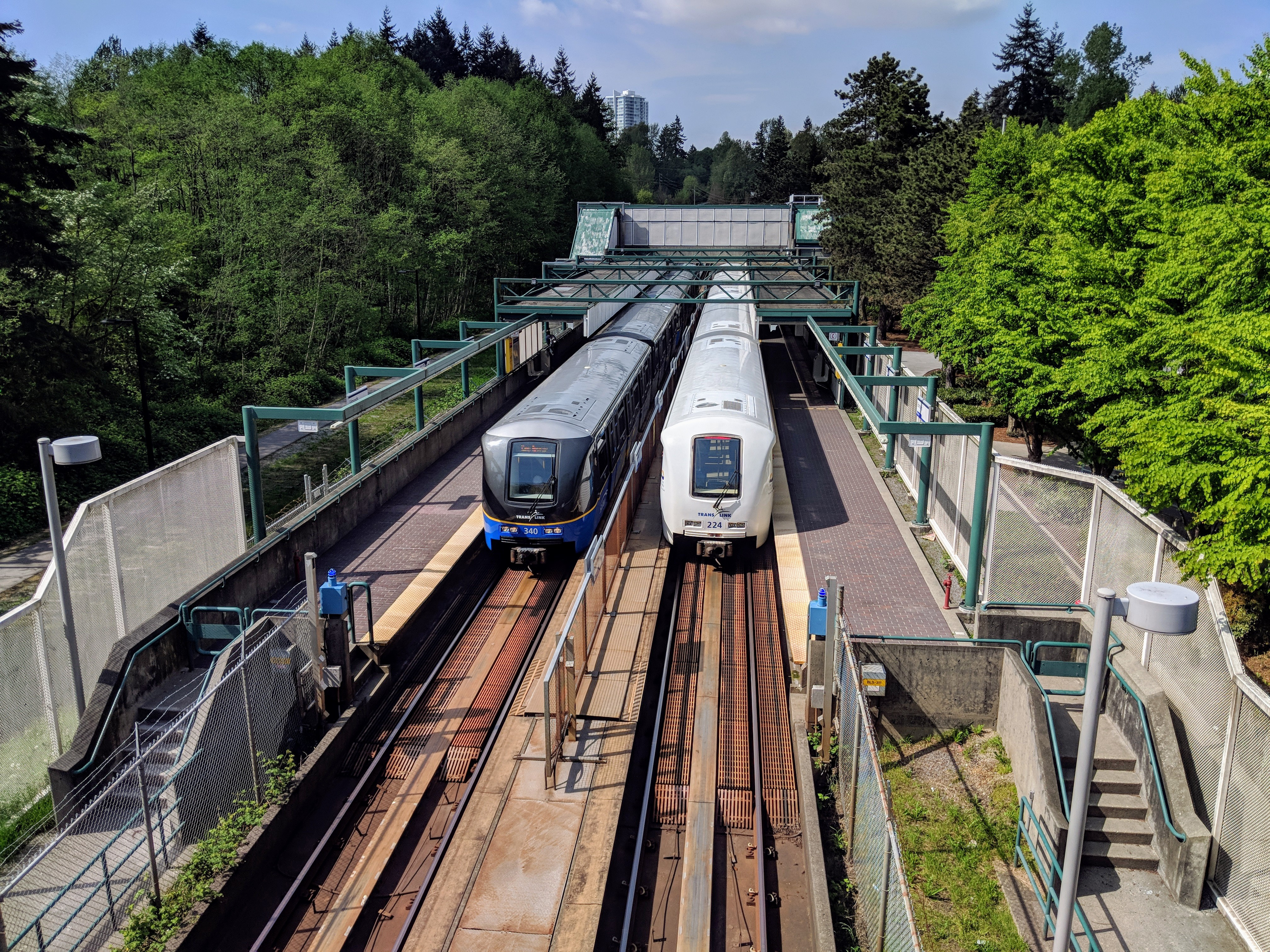 Exterior shot of Edmonds station. Photo is taken from at the east end of the station.